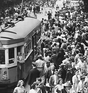 The source of this image is the National Archives of Australia, image number A1200, L11563.